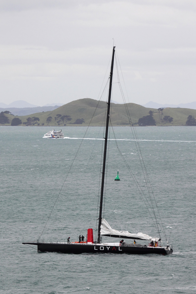 Local yachts and ships during Tall Ship race arrival in Auckland, 25 October 2013 - North Head